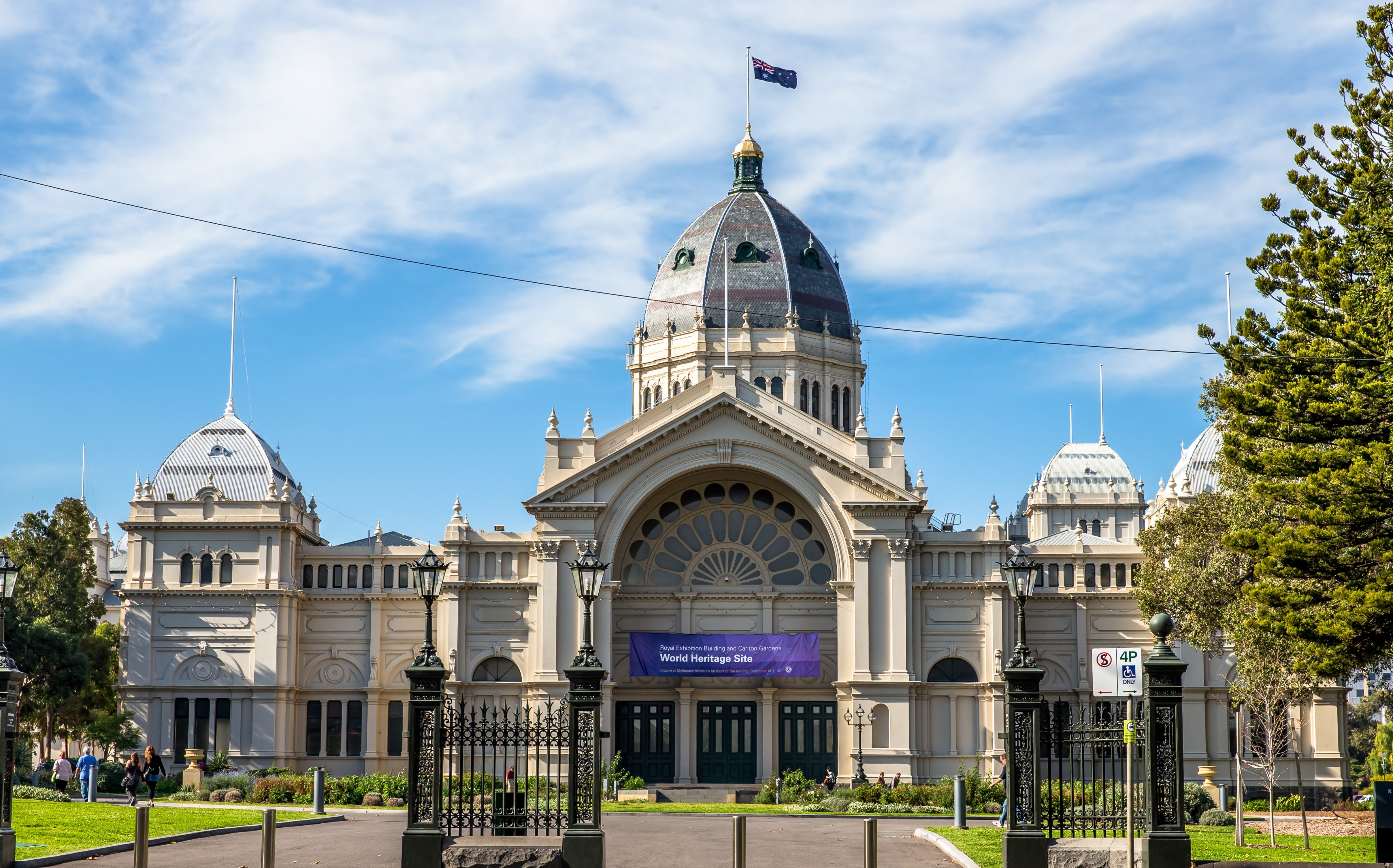 Heritage listed building